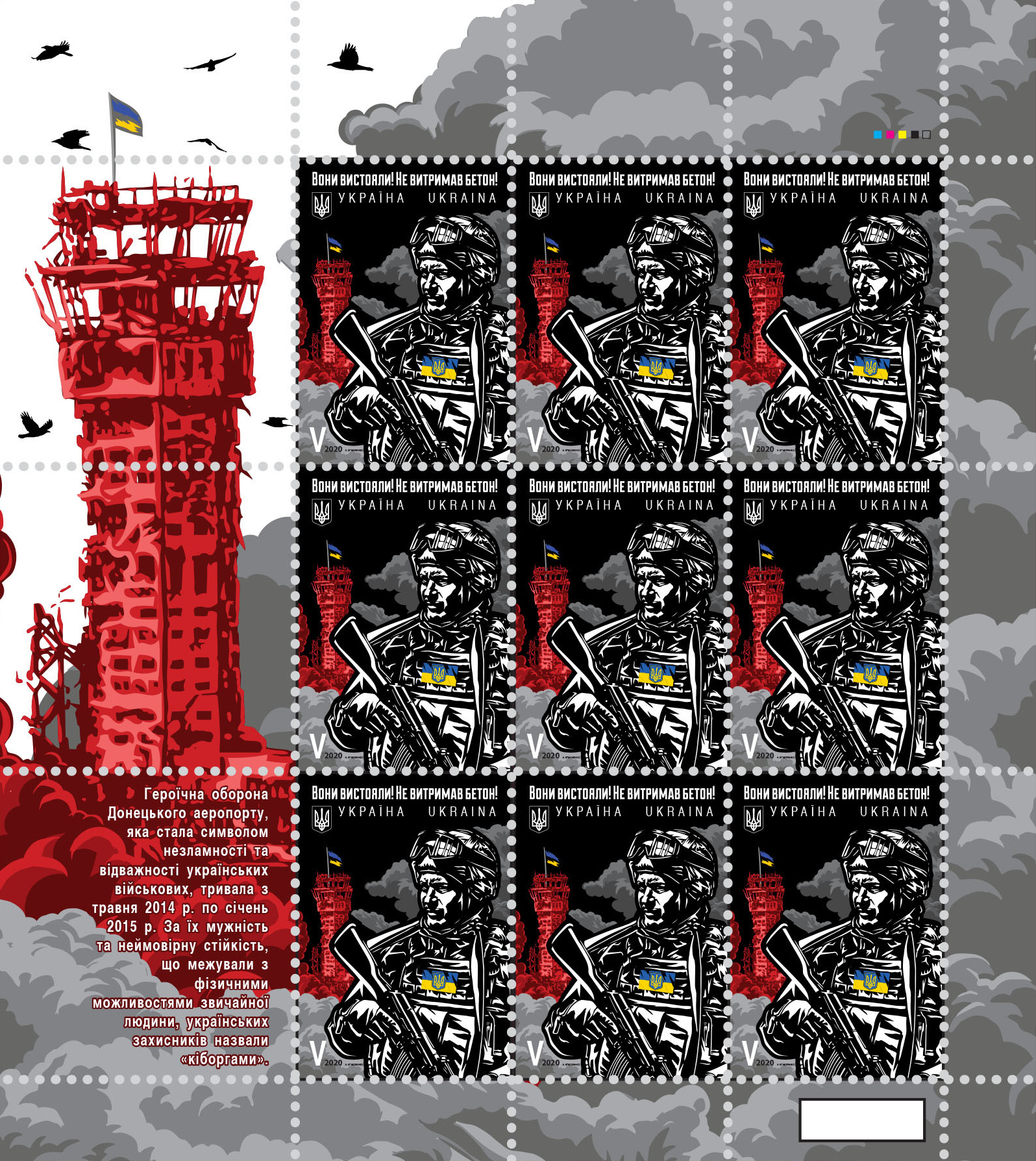 Fifth Anniversary of Battle Of Donetsk Airport